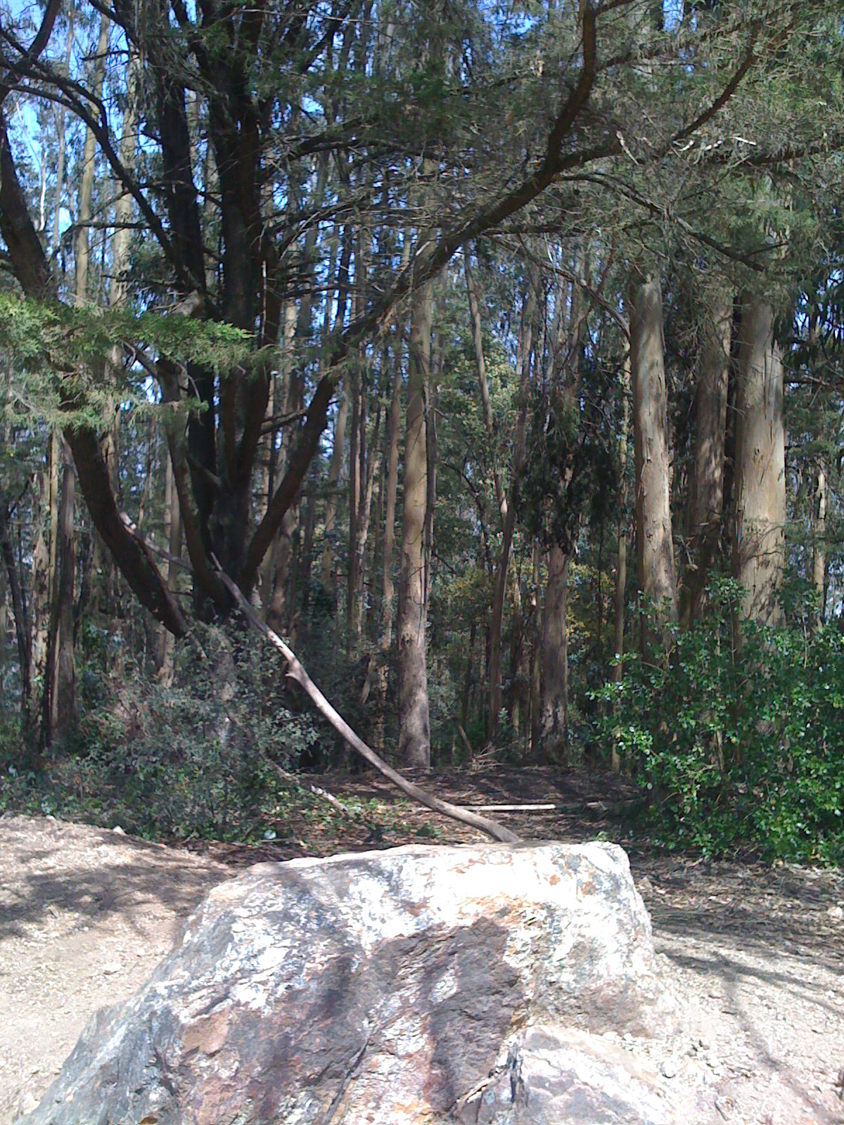 Summit of Mount Sutro — in San Francisco, California. Covered by a dense forest, of about 80% non-native Eucalyptus trees, planted in the late 19th century. The University of California, San Francisco Parnassus Campus is located on the Mount Sutro's north side.